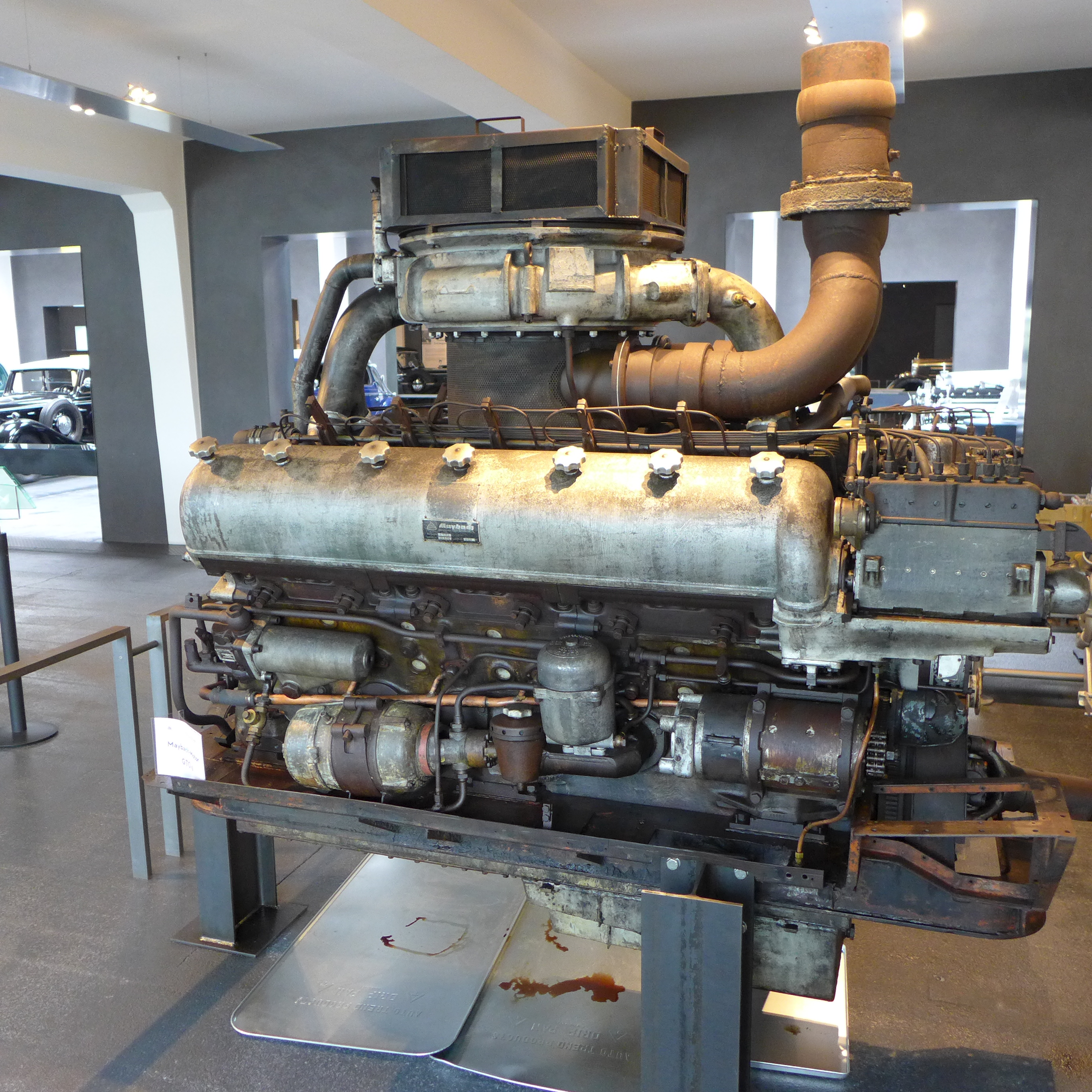 A Maybach GTO 6 engine, on display at the Museum for Historical Maybach Vehicles, Neumarkt in der Oberpfalz, Bavaria, Germany.